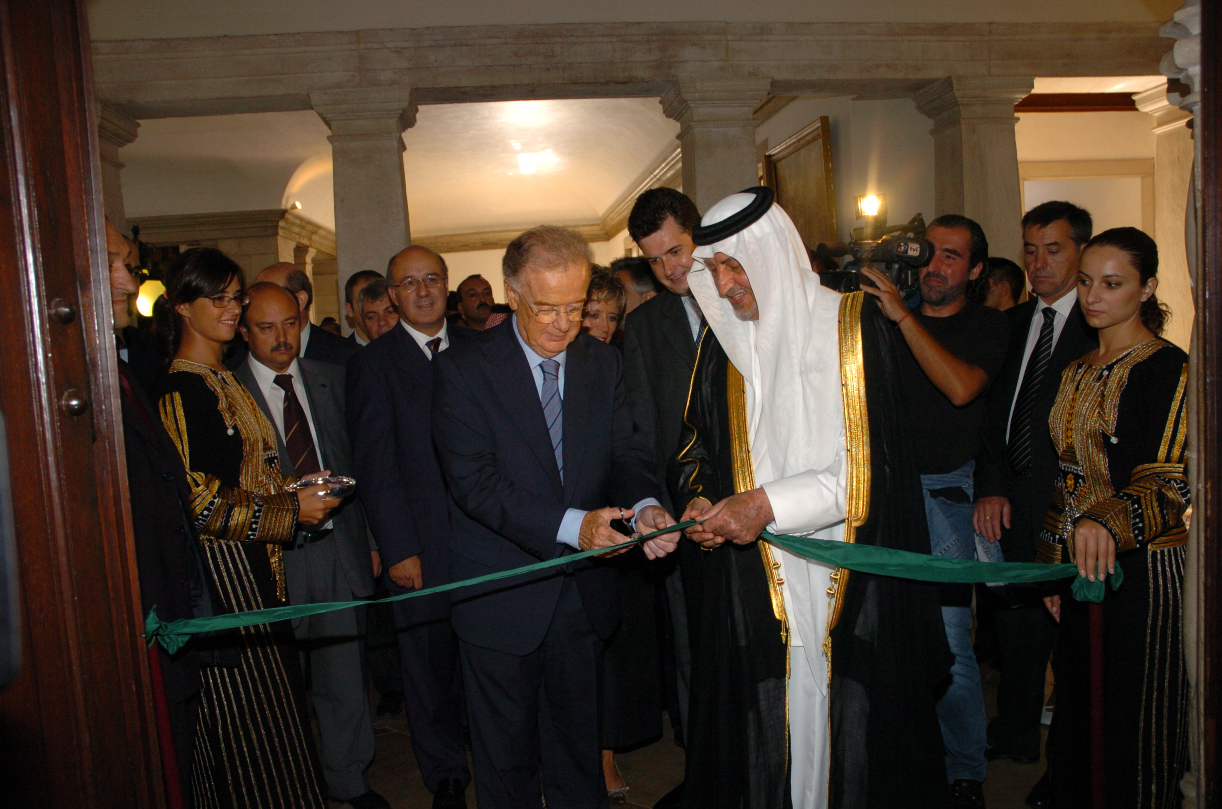 President Jorge Sampaio of Portugal and Prince Khalid Al-Faisal open the Sintra exhibition of "Painting and Patronage".